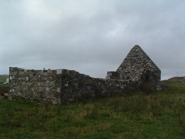 Kilchiaran Chapel. There's not much left of Kilchiaran Chapel, just the walls, a few graveslabs and what I believe to be a baptismal font. But it's the atmosphere which makes it special, it's so remote and lonely (if you ignore the farm, which you can't see any more when you get down to the beach).